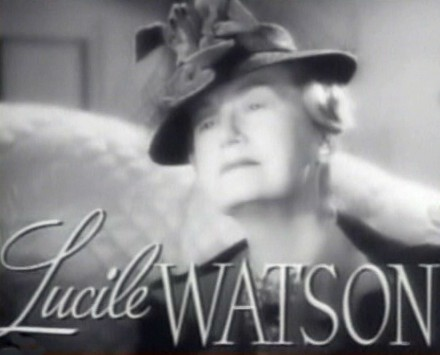 Cropped screenshot of Lucile Watson from the trailer for the film The Women.